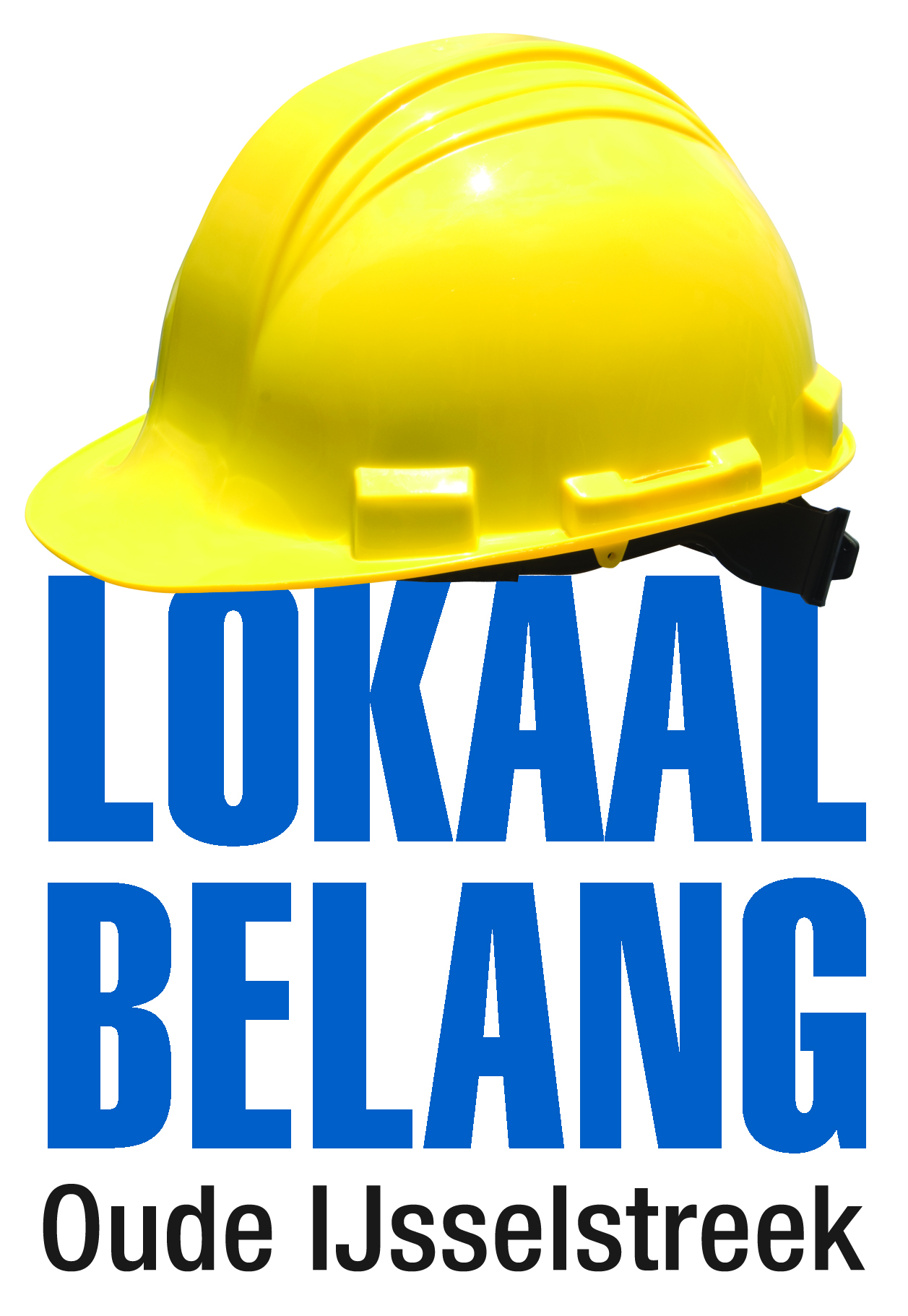 The logo of Lokaal Belang Oude IJsselstreek